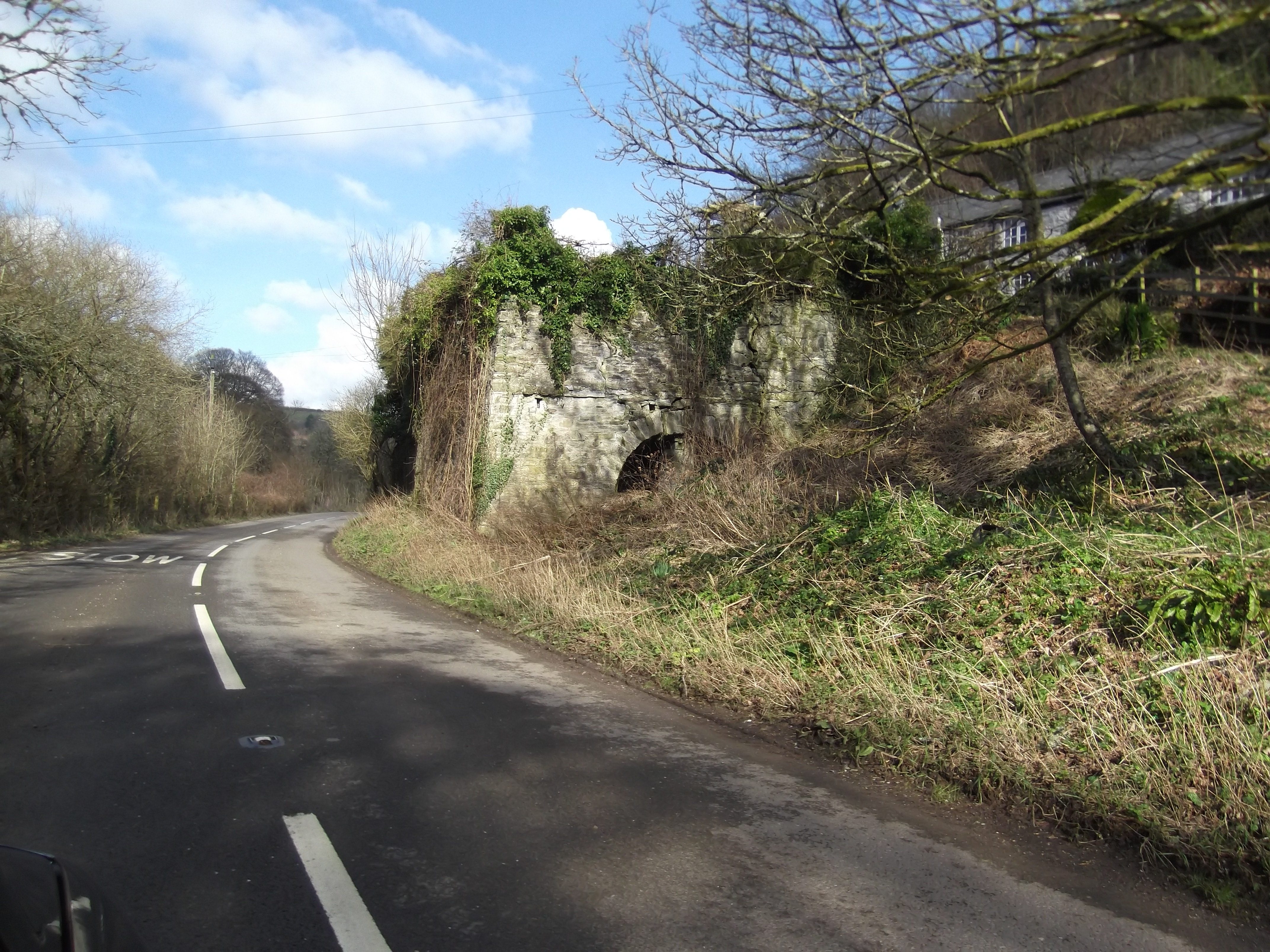 Ruined limekiln at Sandplace near Looe, Cornwall; when the canal to Liskeard was opened limekilns opened there and lime by-passed Sandplace